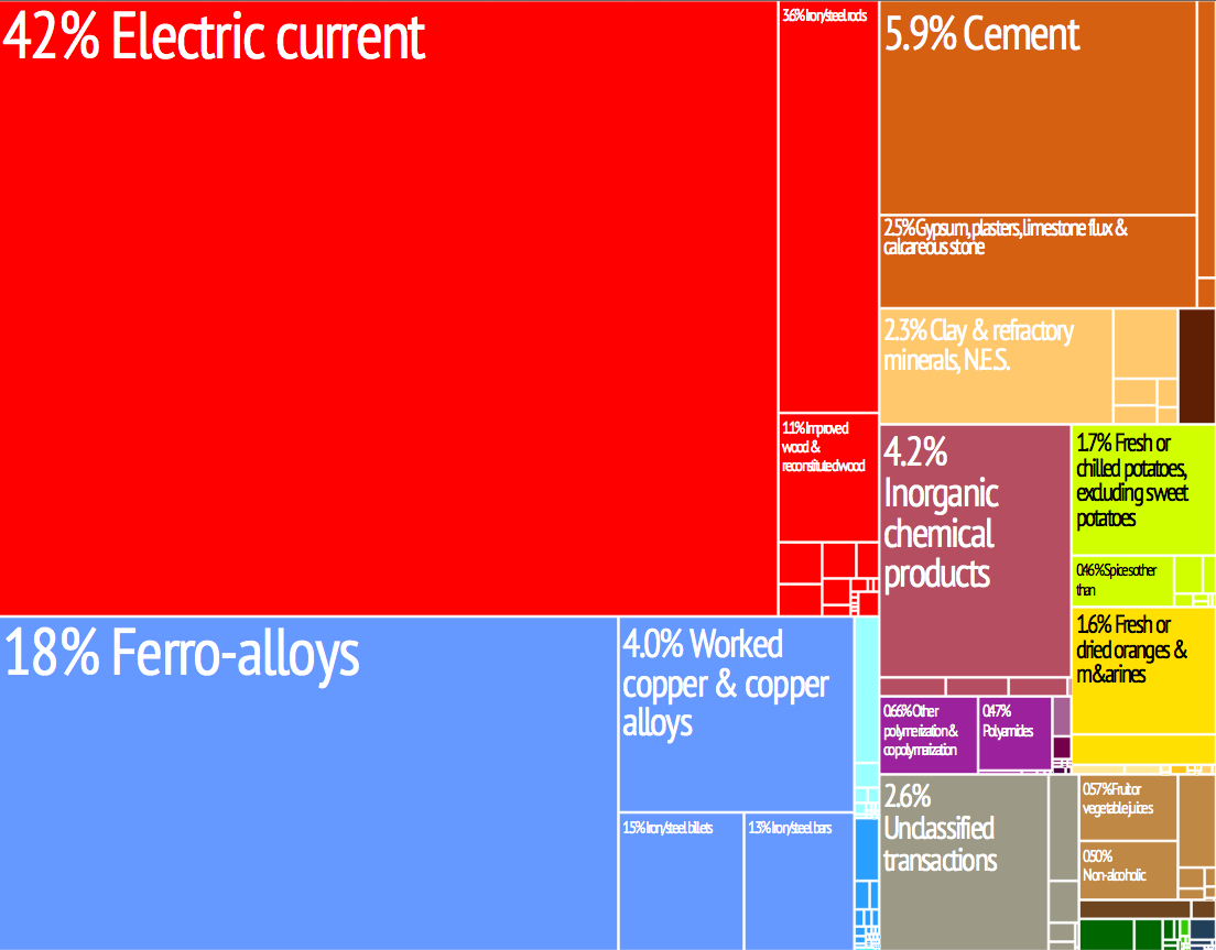 Export Trading Treemap. From MIT/Harvard Atlas of Economic Complexity